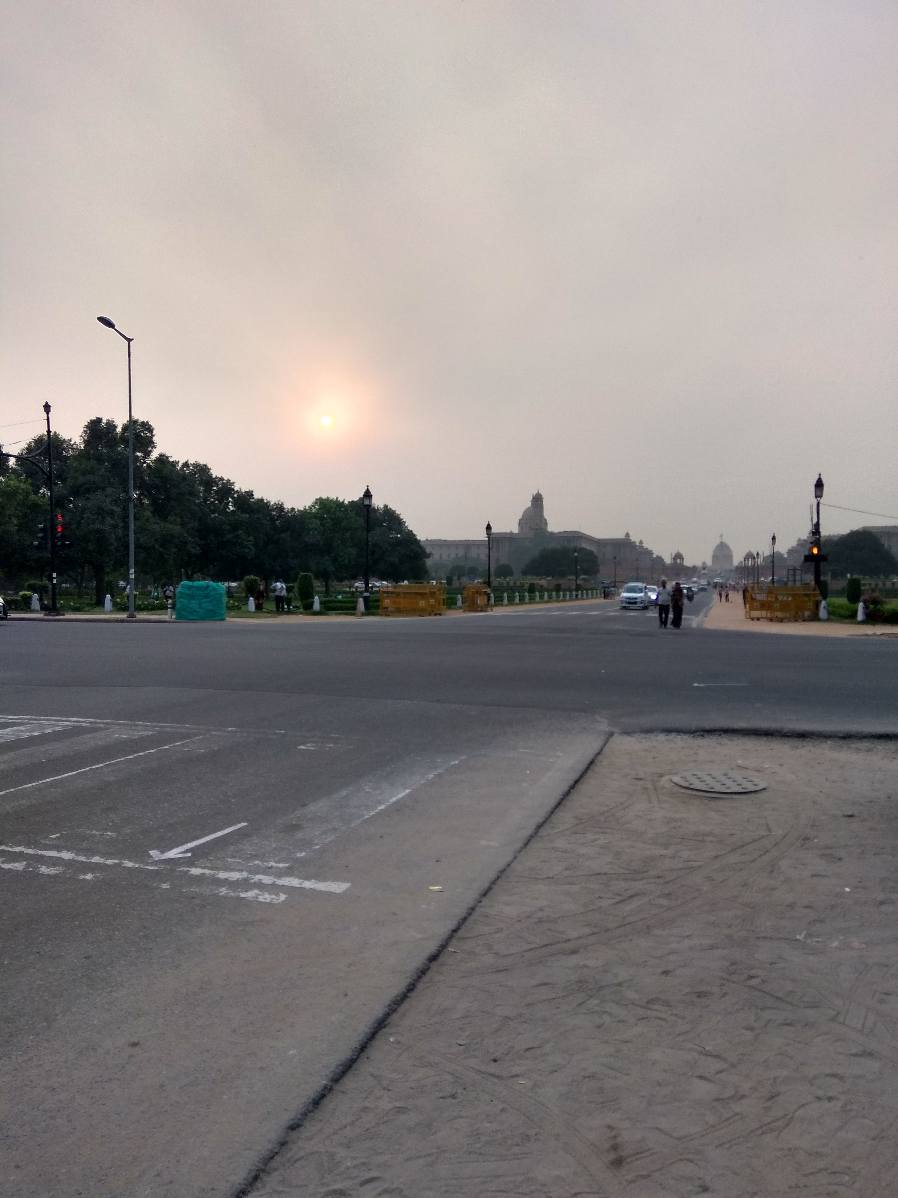 Rashtrapati Bhawan, New Delhi By Manzar Siddiqui